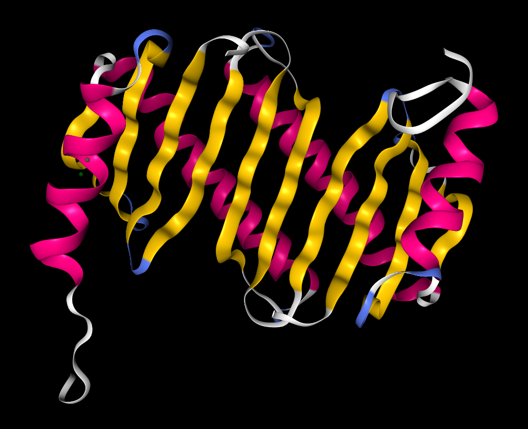 Structure of mouse cytoplasmic Roadblock / Light Chain 7 - dynein RCSB PDB: 1y40